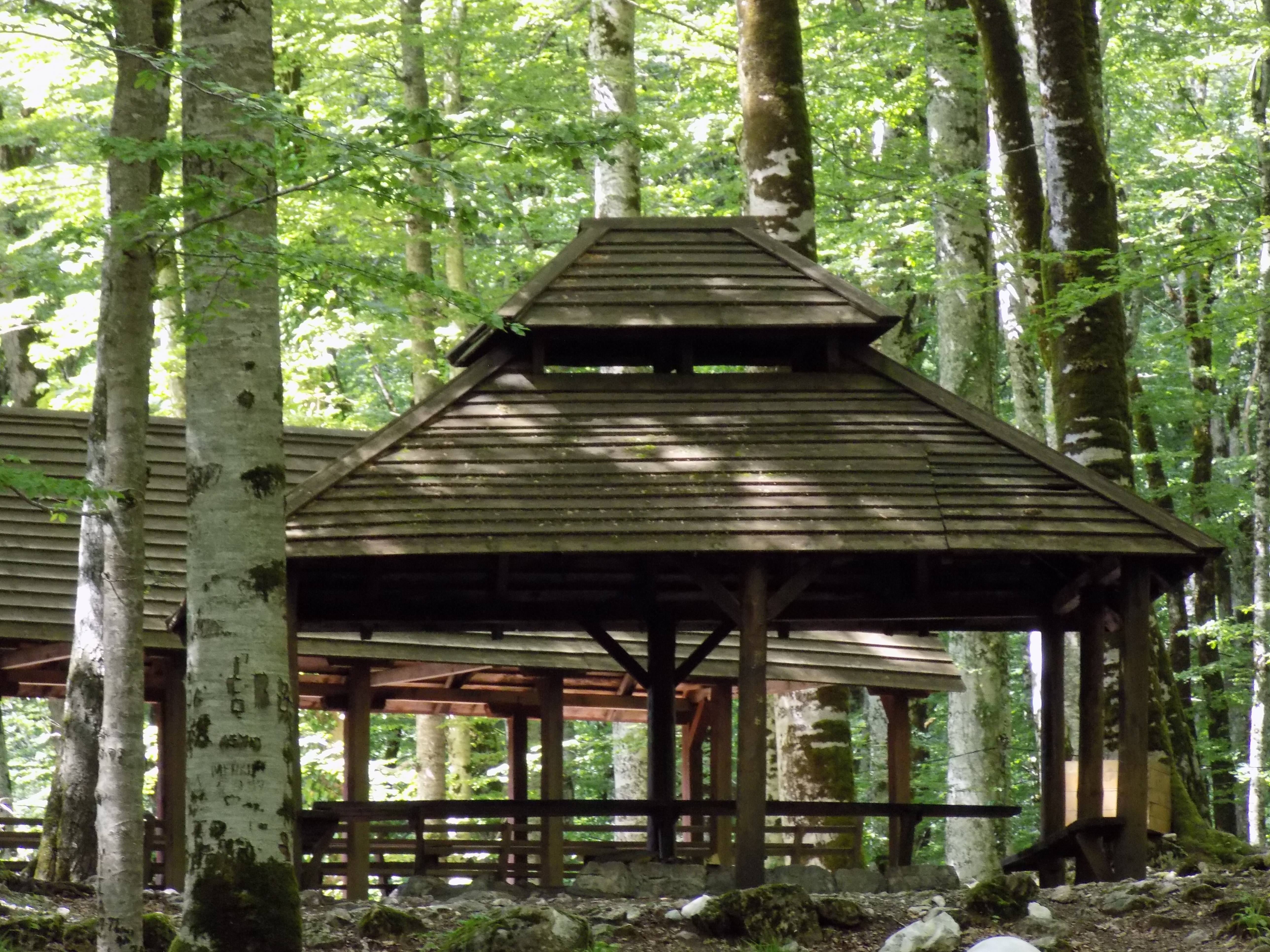 Biogradska Gora National park, the oldest protected natural resource in Montenegro